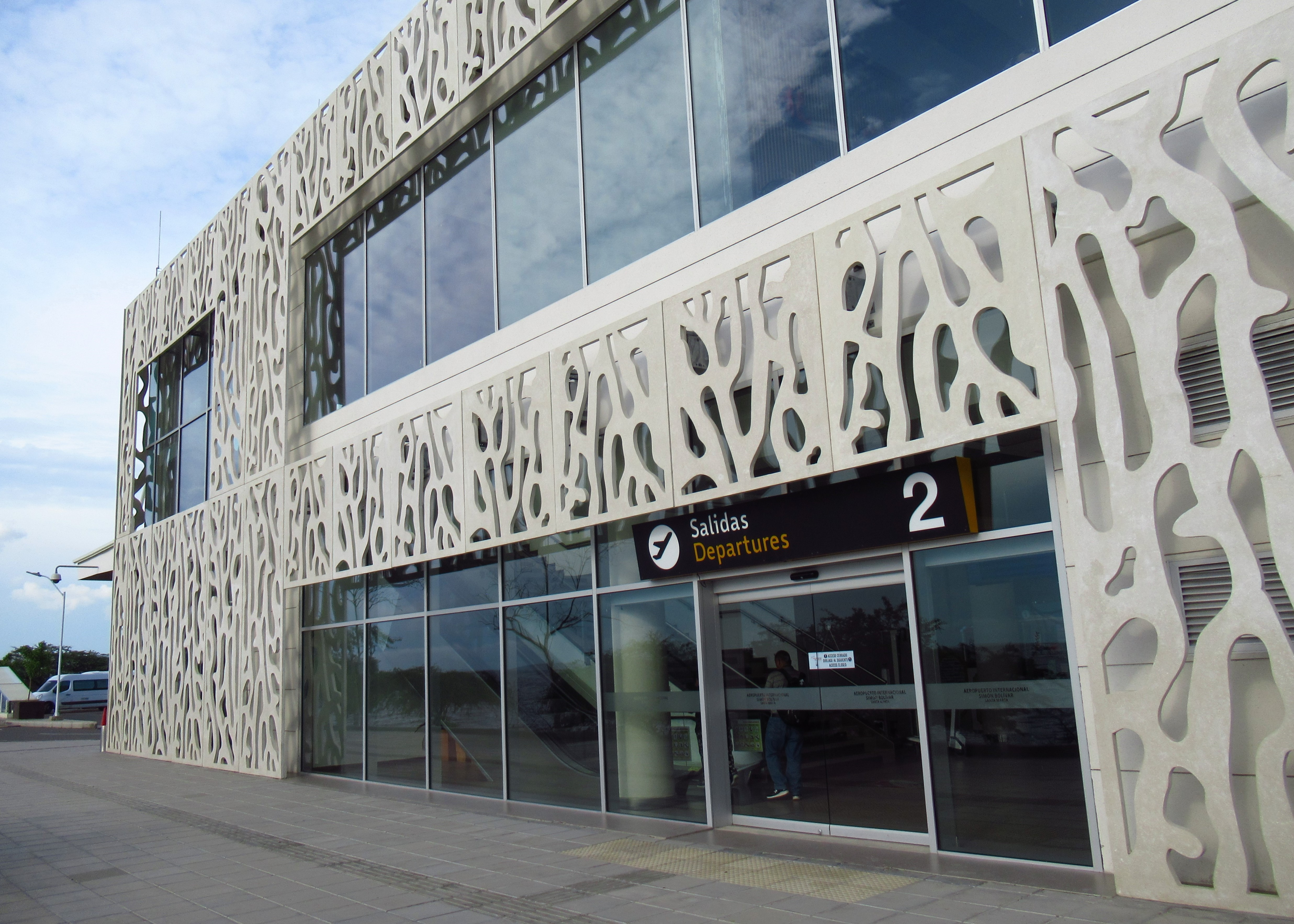 Santa Marta